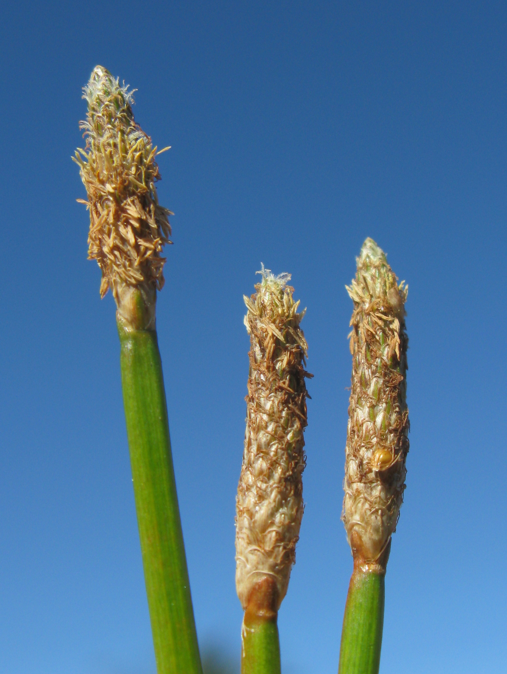 Native, warm season, perennial sedge with very short rhizomes. Culms are tufted, rounded, mostly 30–50 cm tall, 1–1.5 mm diam. Spikelets are cylindrical and 5–20 mm long. Glumes have a distinct midrib, and are 2.2–3.5 mm long, straw-coloured and often tinged red-brown. Bristles are rather stout, flattened, closely and retrorsely toothed, about as long as nut together with style base. Stamens 3. Style 3-fid. Nuts are biconvex, obovoid, 1.1–1.25 mm long, smooth, shining and yellowish to dark brown. Flowering is from spring to summer.